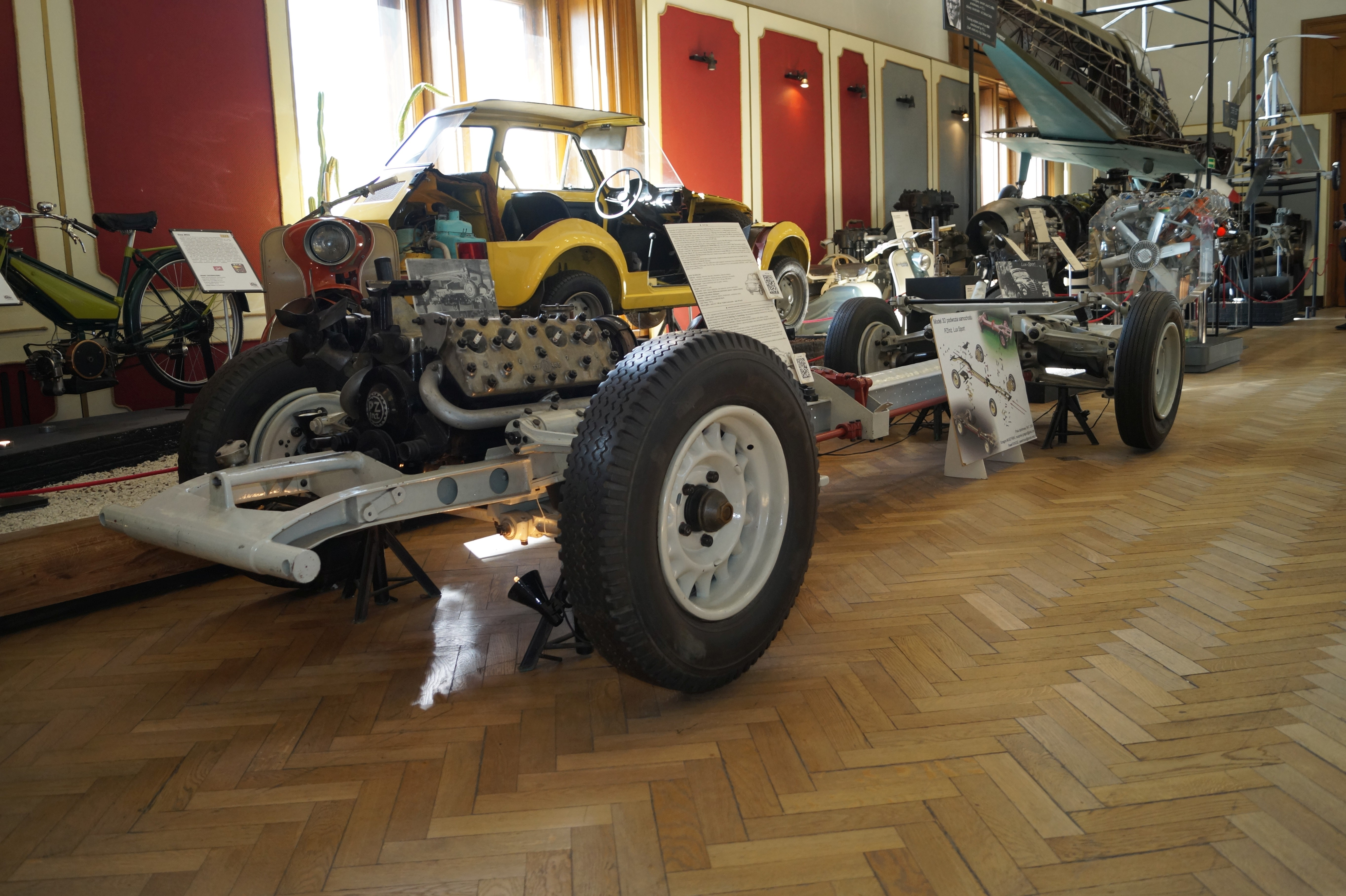 This photo was taken during Automotive Wikiexpedition 2016 set up by Wikimedia Polska Association.You can see all photographs in category Wikiekspedycja motoryzacyjna 2016. English | polski | +/− Rama auta PzInż 403 Lux-Sport w Muzeum Nauki i Techniki w Warszawie